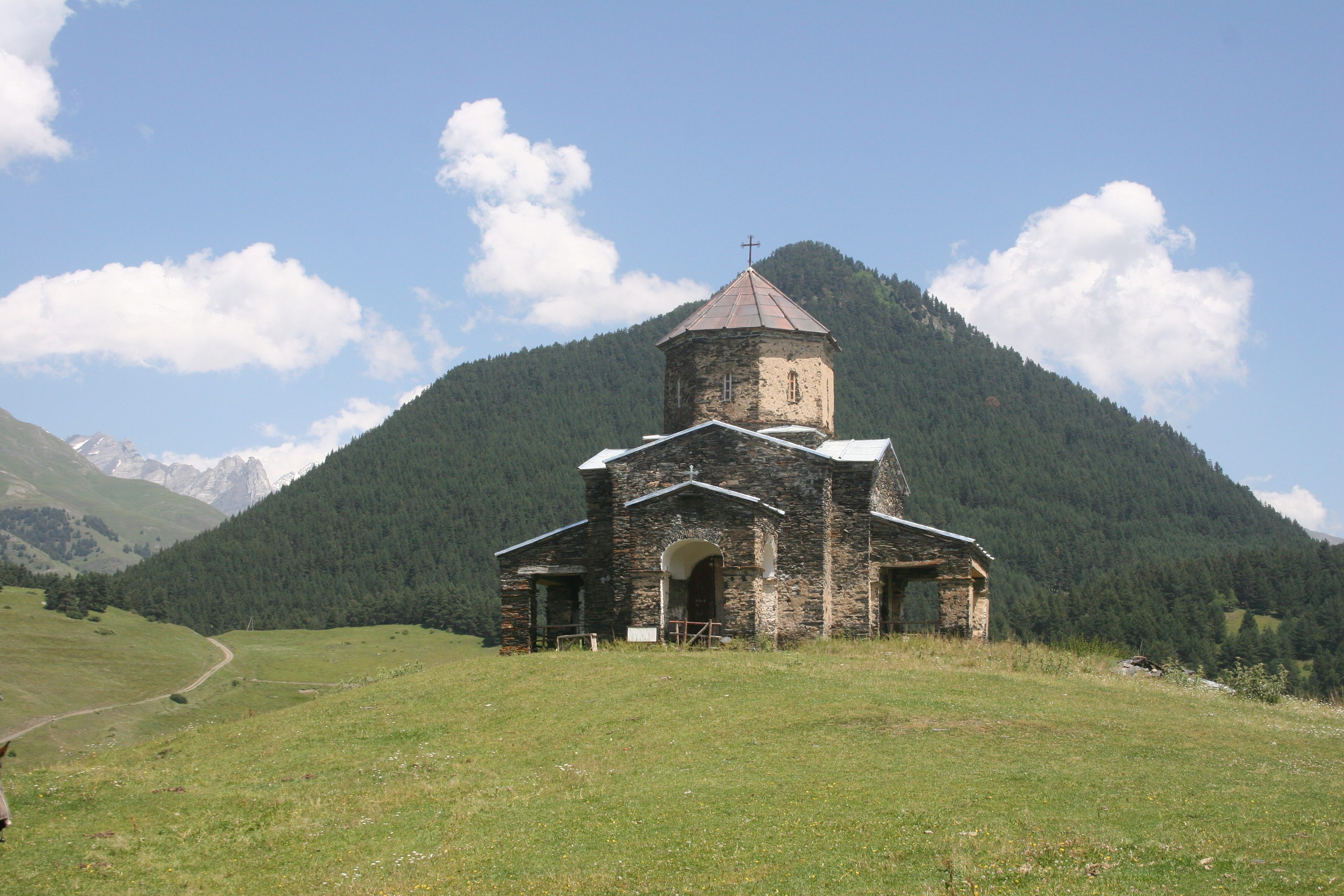 Shenaqo Sameba Church, Tusheti, Georgia